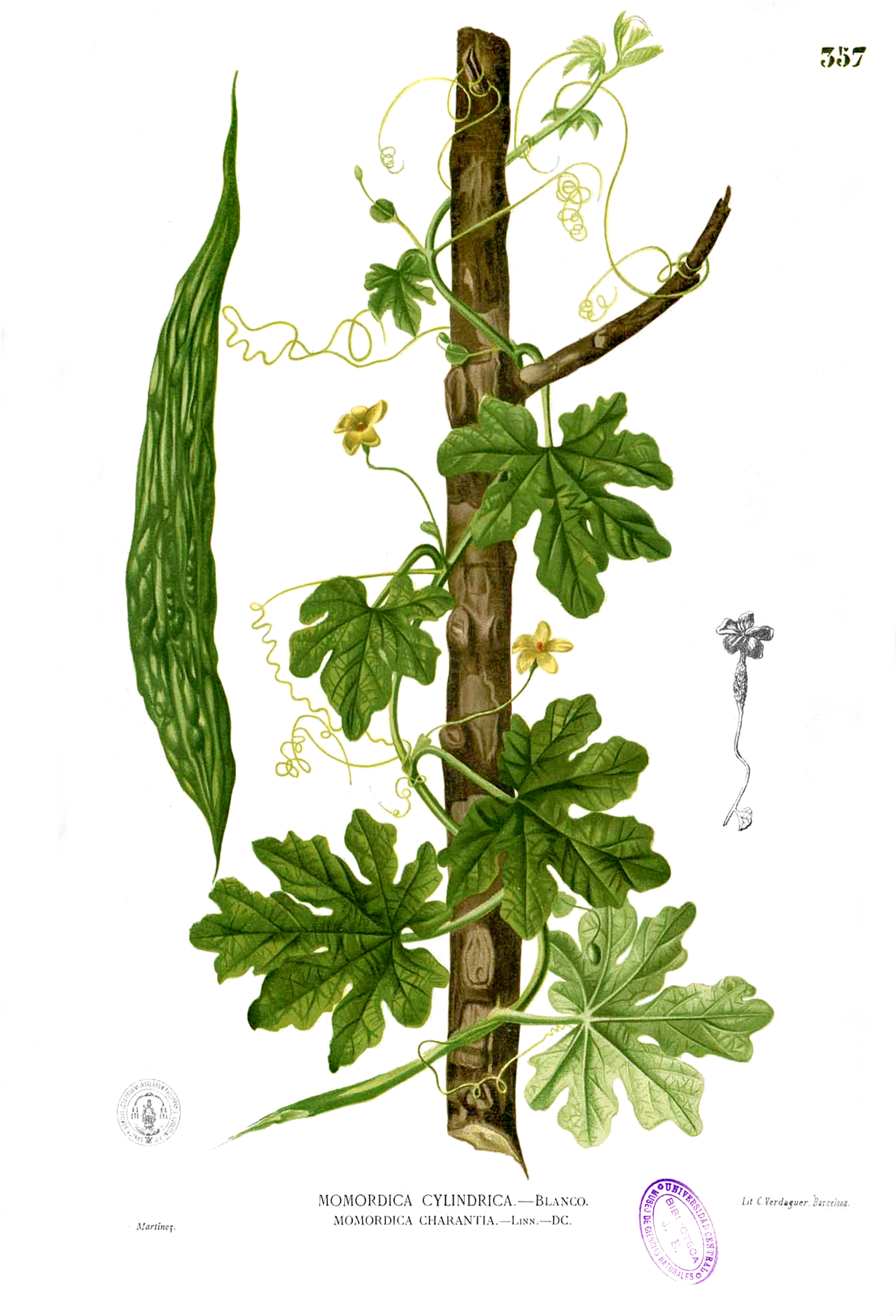 Plate from book